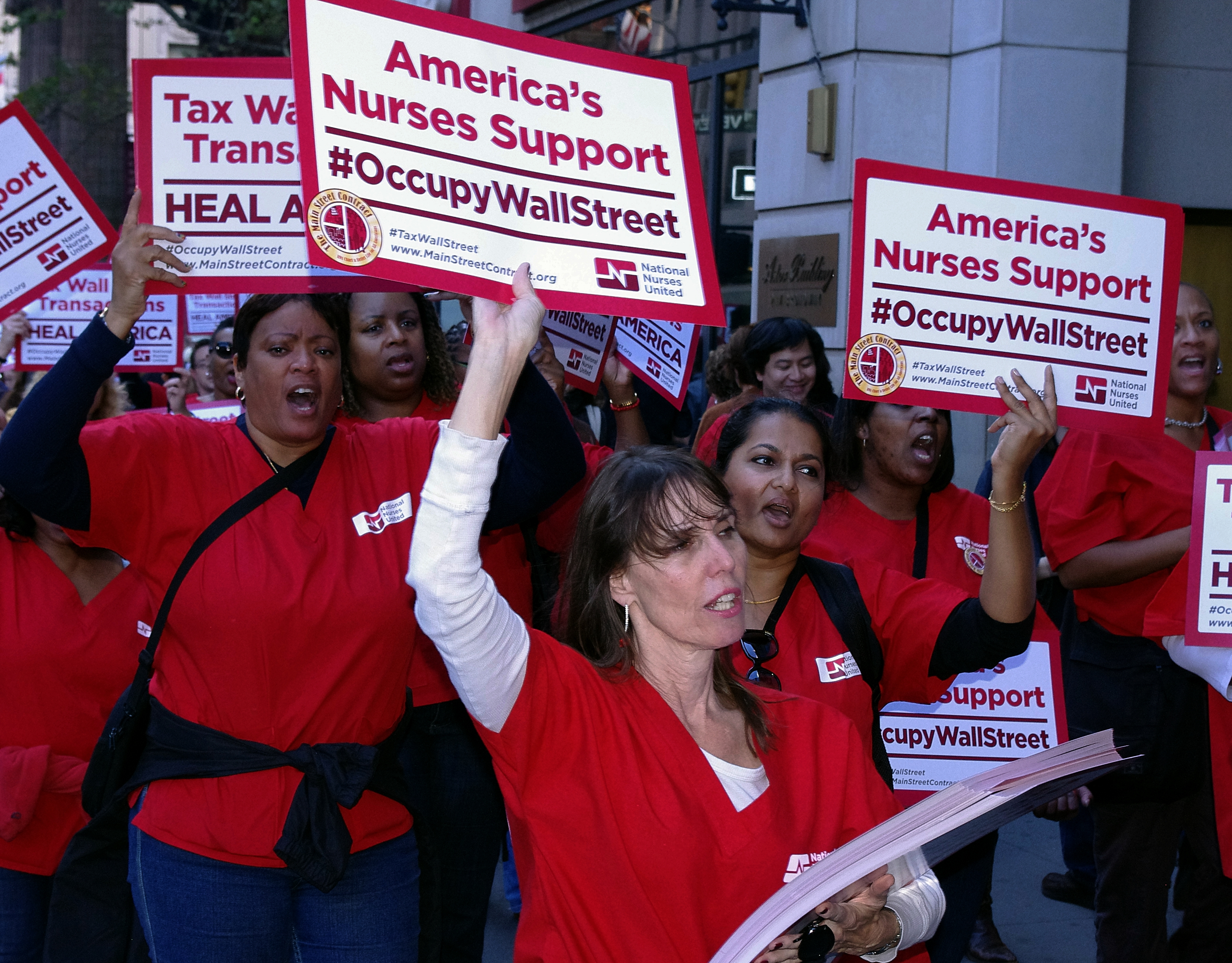 Photos of Occupy Wall Street on Day 20, October 5, the day of the big march with unions in solidarity with OWS.